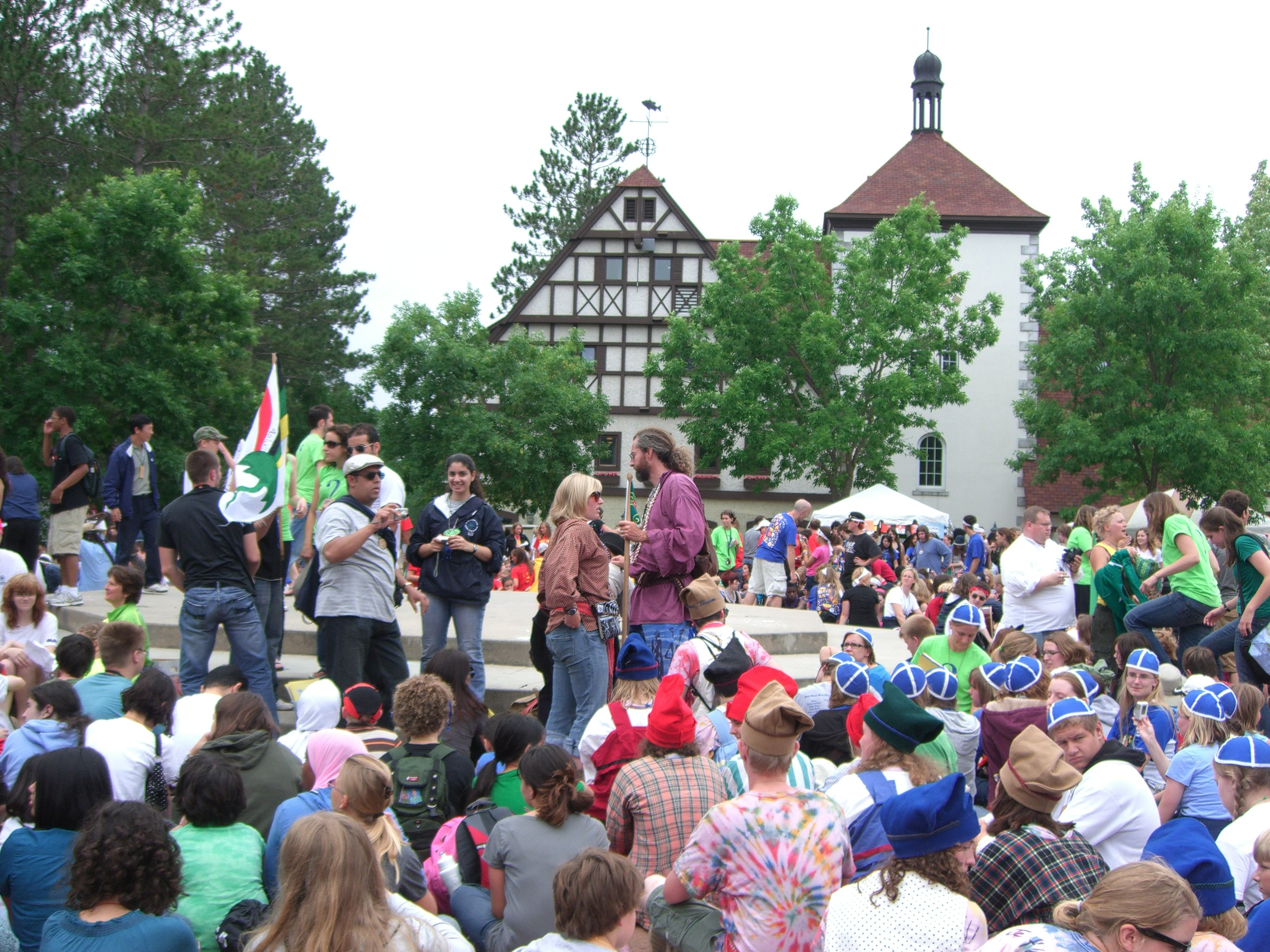 A crowd of people gather for the closing program at Concordia Language Village's semi-annual International Day (I-Day) at the Waldsee German site near Bemidji, Minnesota, USA.